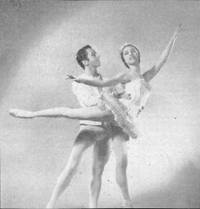 Maria Tallchief as the Sugar Plum Fairy and Nicholas Magallanes as her cavalier in the New York City Ballet's 1954 production of The Nutcracker.